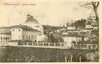 Cartolina di Villalvernia. Sinistra: Villa Valerio e scorcio del suo Parco.